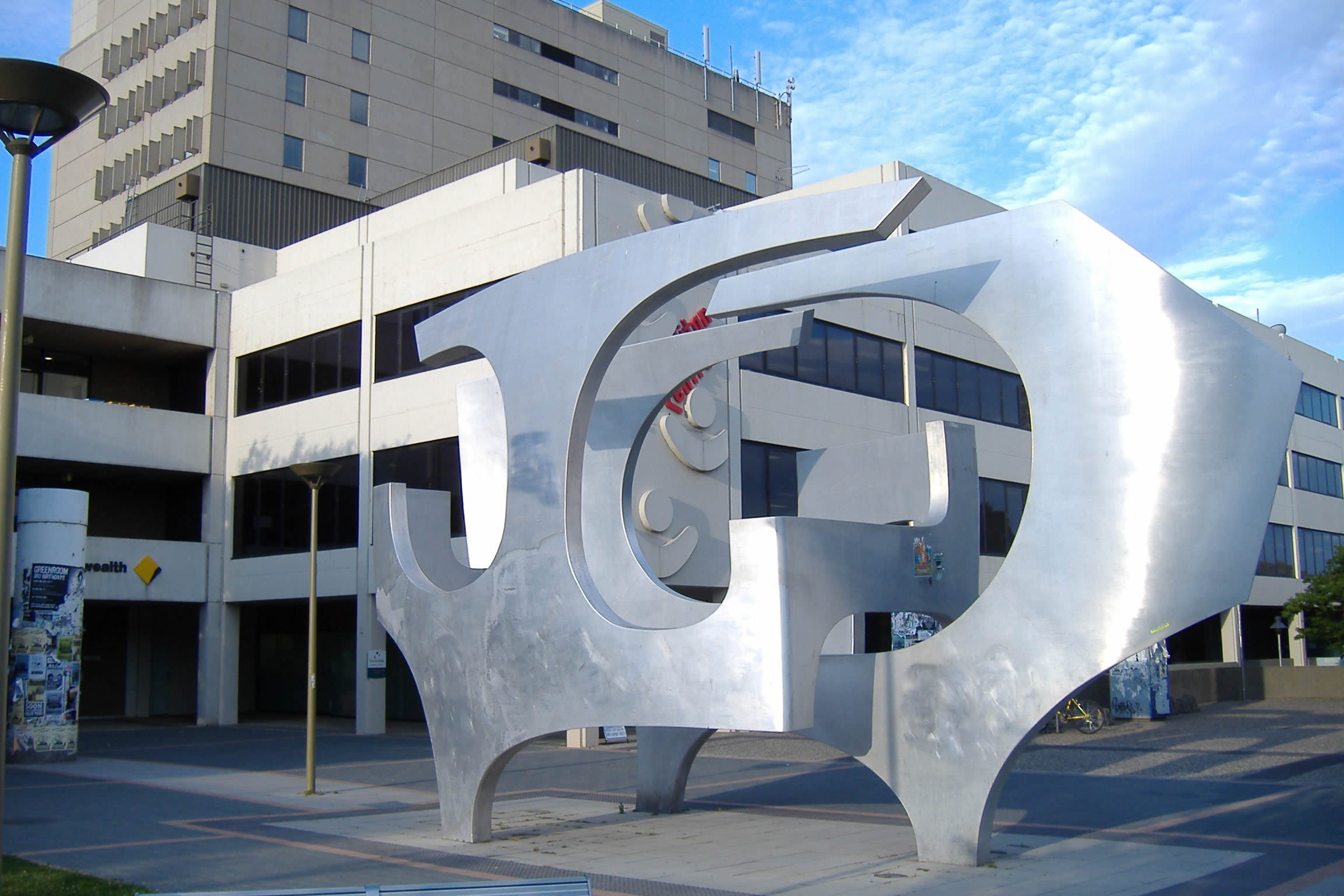 "Sculptured Form" by Margel Hinder (1970). - This sculpture/structure has been in Woden for a while. Since 1970 in fact! It usually never enters my mind or anybody else's for that matter, each time one walks past it. Sculpture in Canberra/Australia